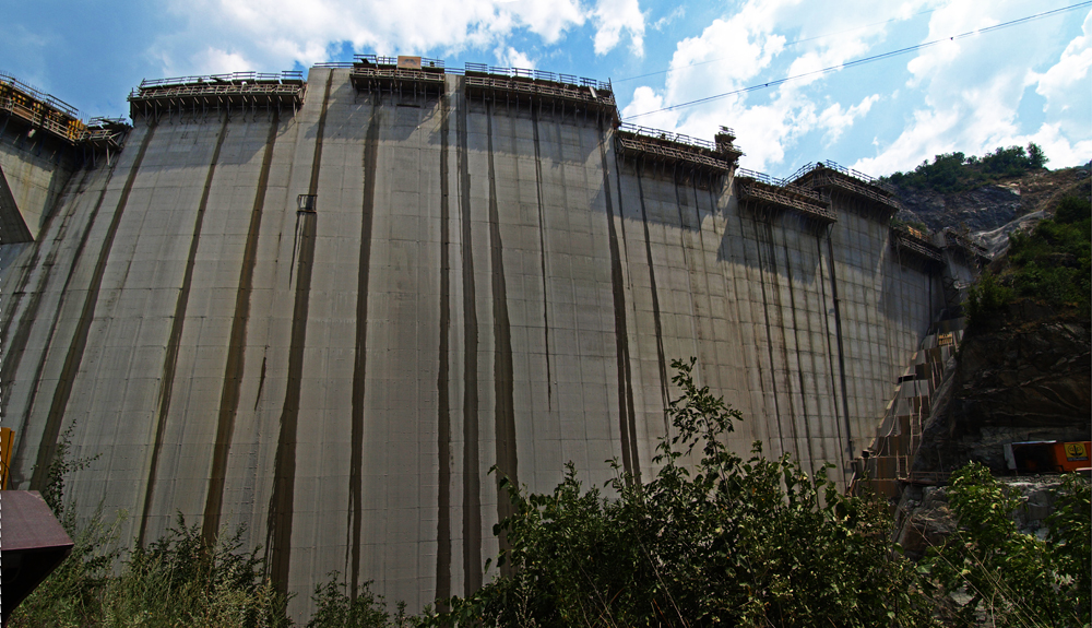 Building of Tsankov Kamak Dam on River Vacha, Devin Bulgaria